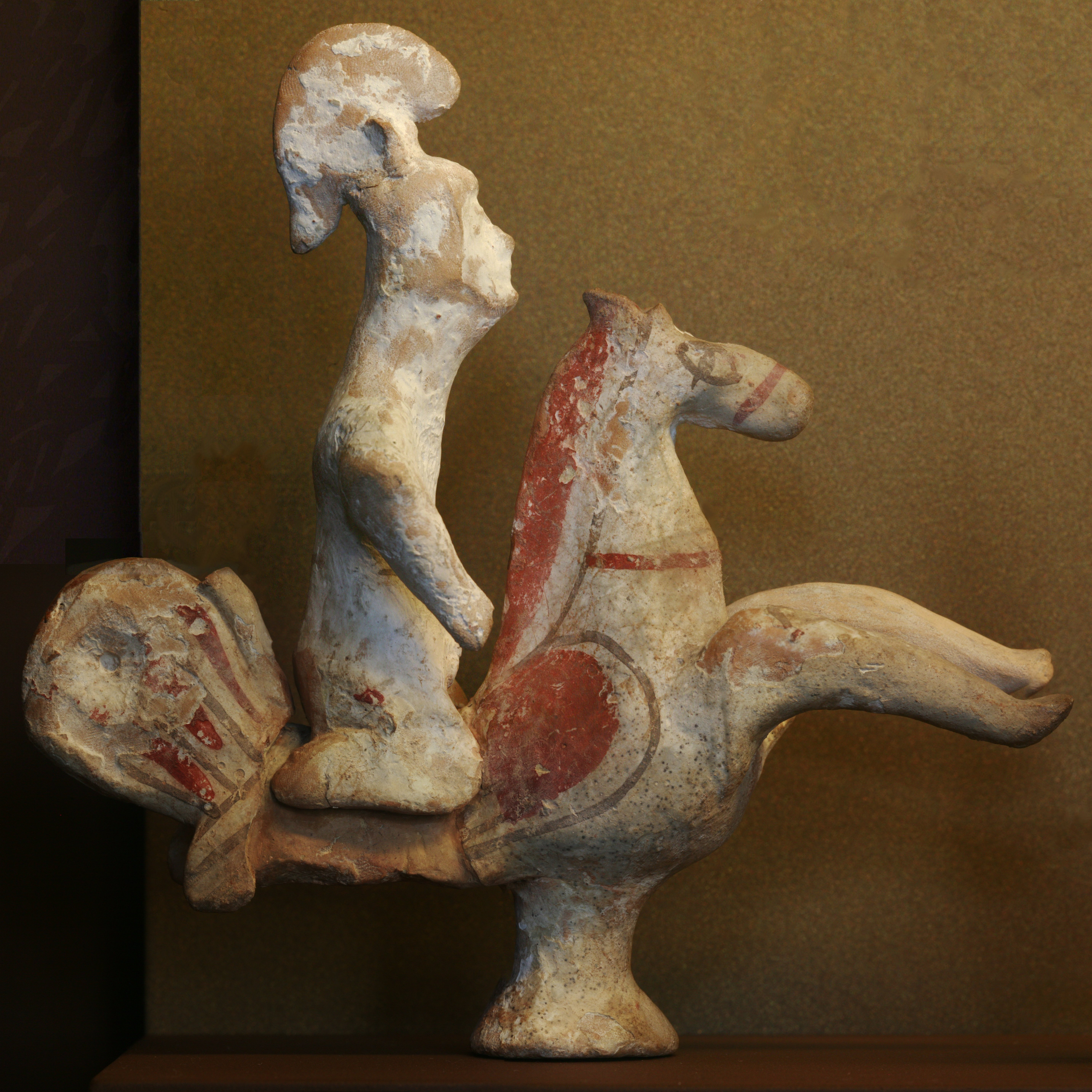 Warrior riding a hippalektryon; the combination may not be antique. Terracotta, ca. 500–470 BC. From Thebes.